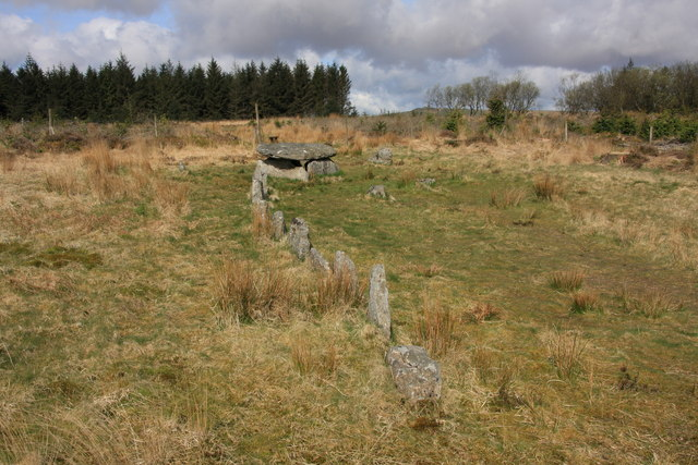 Cist and stone row on Lakehead Hill This substantial cist or kistvaen was partly re-erected in 1895; the site is surrounded by conifers but it is protected within a fenced enclosure.